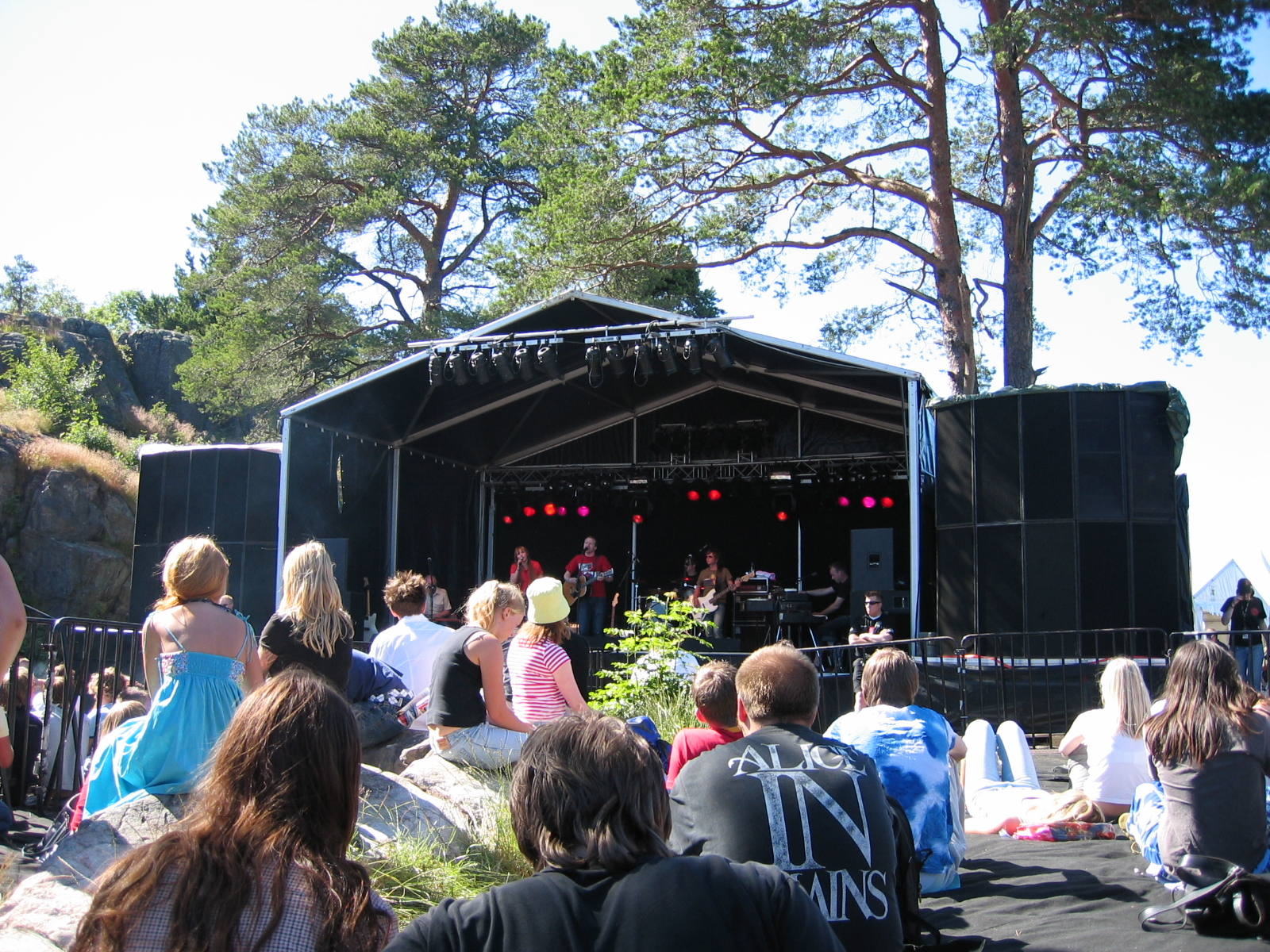 Thom Hell performs at the Quart Festival 2004